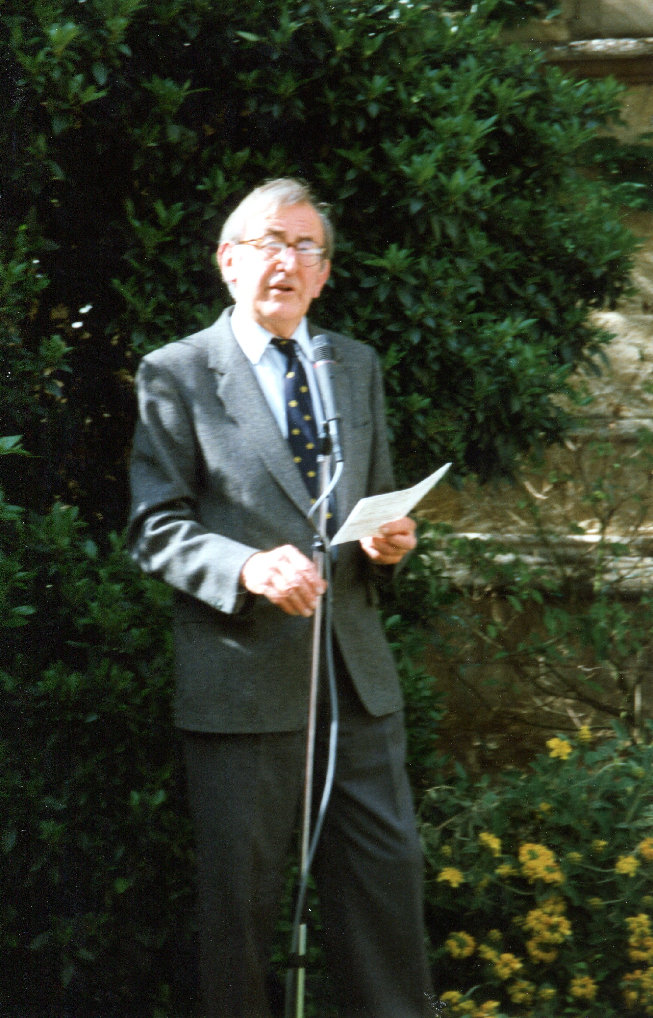 Peter Bayley speaking outside at University College, Oxford, 1997. Digitized on 24 September 2019.